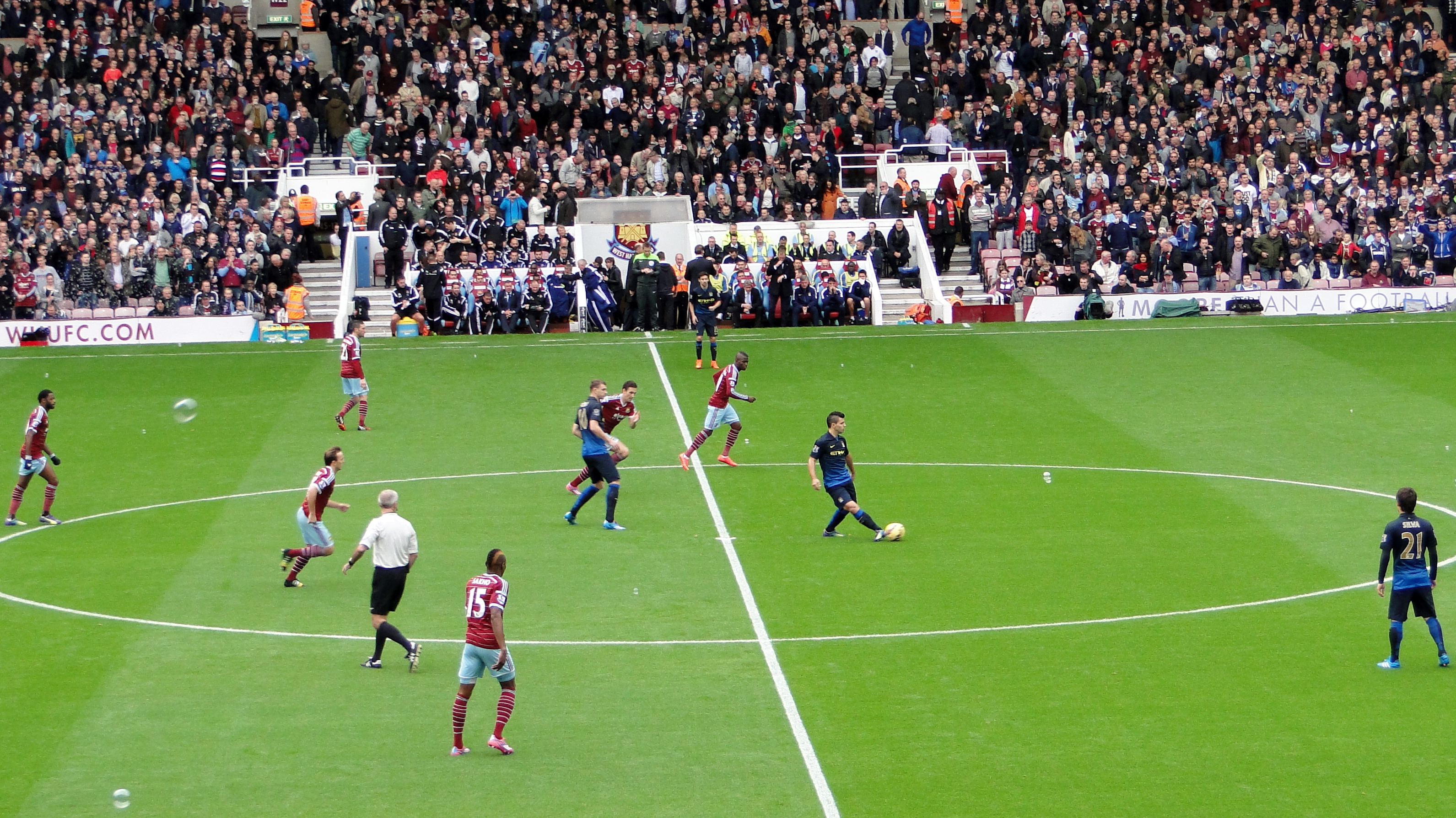 Premier League teams West Ham United and Manchester City kick-off in their game at the Boleyn Ground, October 2014.